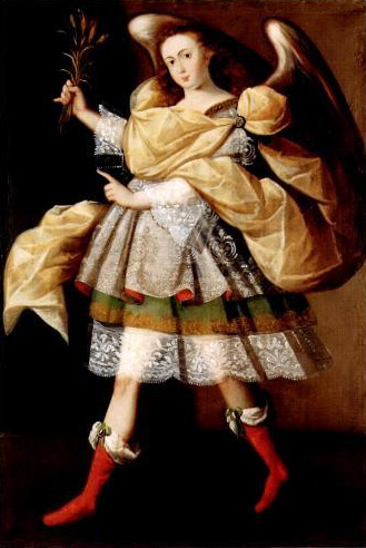 Angel with wheat stalk by Master of Calamarca. Original painting is in the church of Calamarca, Bolivia.